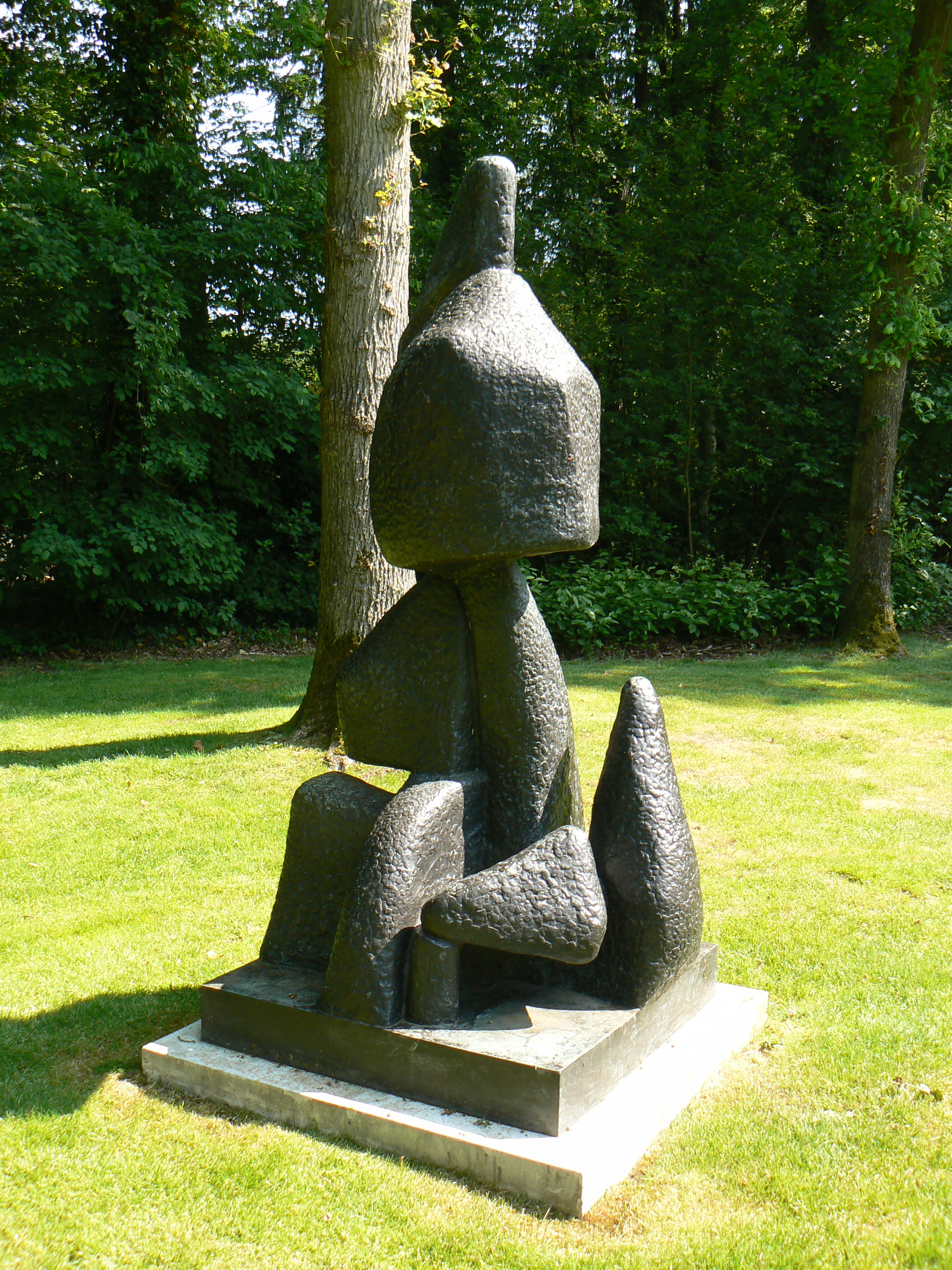 sculpture Composition (1933/1961) by Otto Freundlich in KMM sculpturepark/The Netherlands